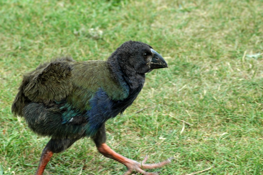 Here is a young Takahe at the top of Tiritiri Island, North of Auckland